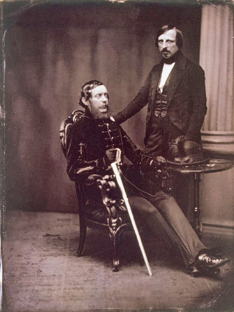 Portrait of Lajos Kossuth and Ferenc Pulszky George Eastman Museum Native nameGeorge Eastman House International Museum of Photography and FilmLocationRochester, United States of AmericaCoordinates43° 09′ 08″ N, 77° 34′ 49″ W Established1949Web page control : Q1507284 VIAF: 132694857 ISNI: 0000 0004 0459 1733 ULAN: 500276536 LCCN: n79086438 NLA: 36554246 WorldCat